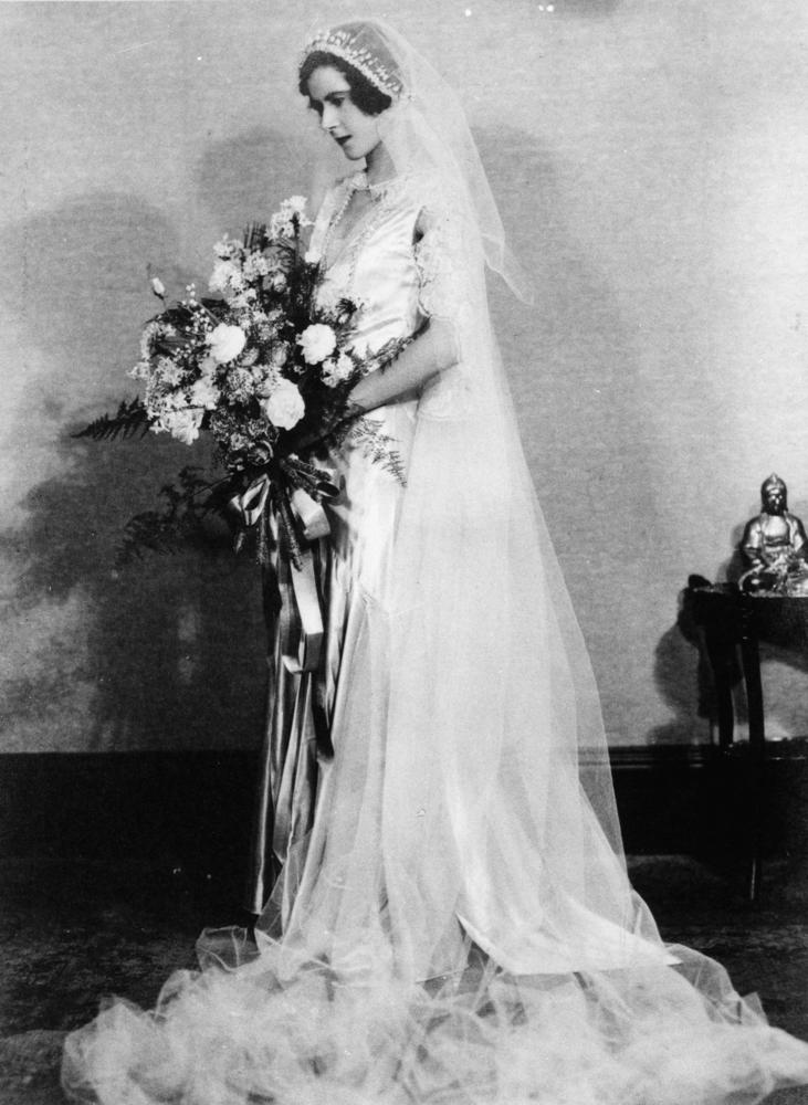 Florence (Cooee) Blume on her wedding day in Brisbane, 1931 Florence Blume married P. G. Fegan in Brisbane in 1931.